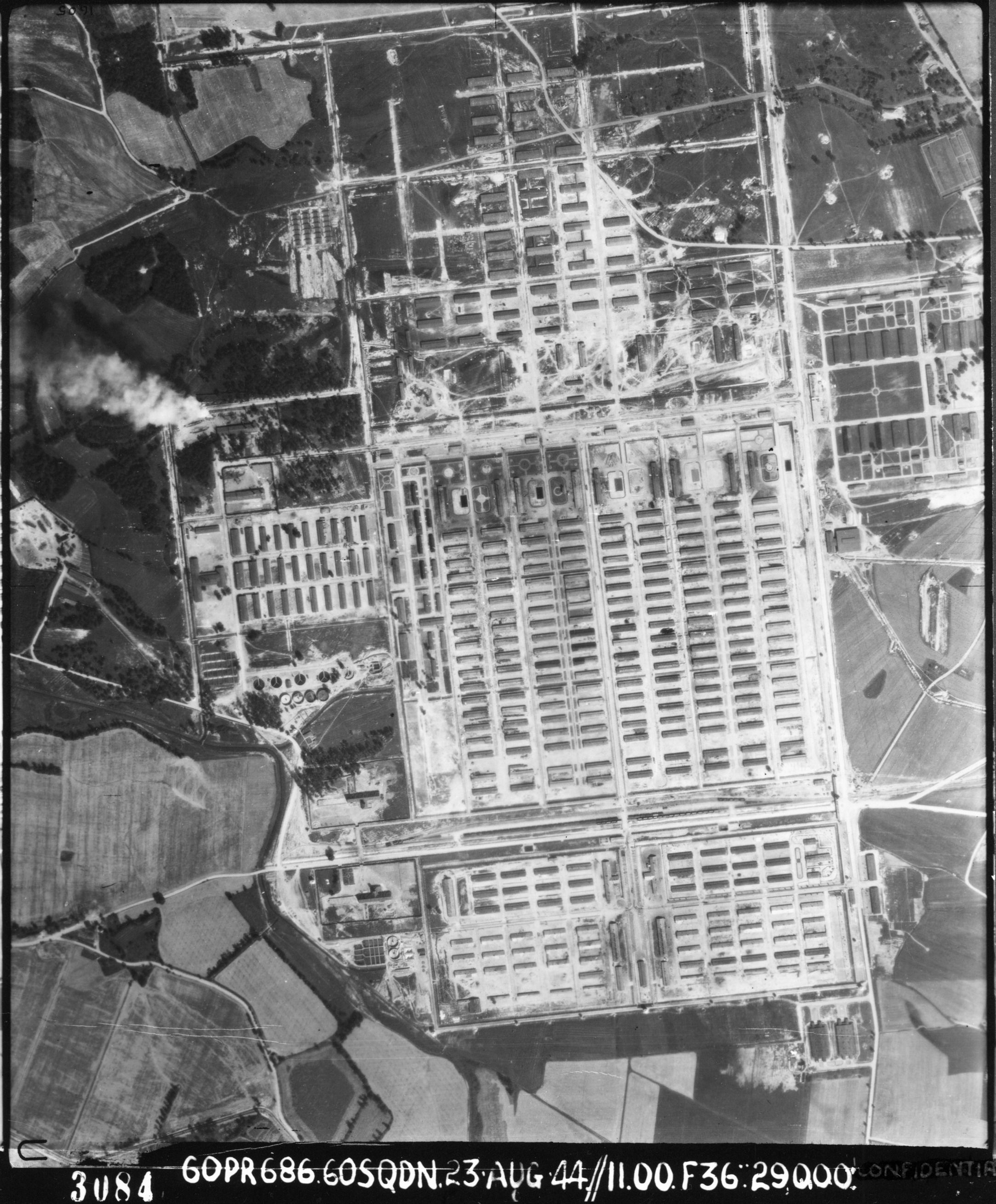 Auschwitz aerial view RAF reconnaissance picture 1944